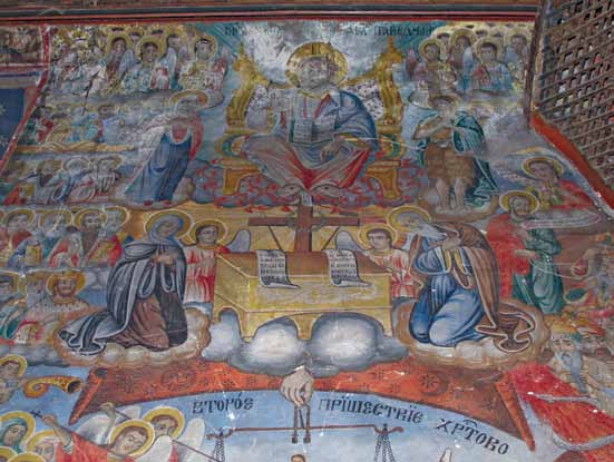 Saint Nicholas Church in Dolen Judgement Day Fresco